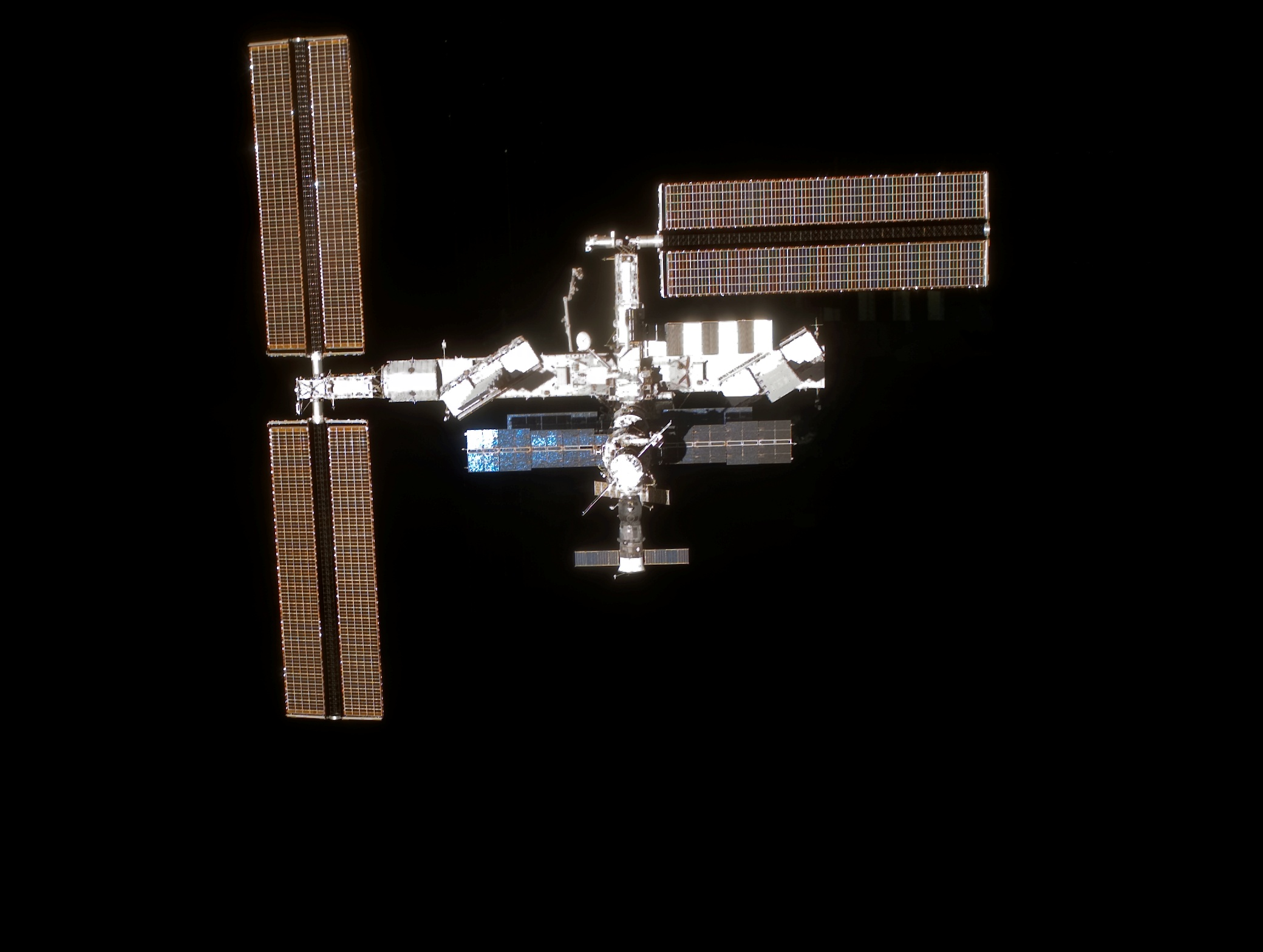 S116-E-07159 --- Backdropped by the blackness of space, the International Space Station moves away from Space Shuttle Discovery